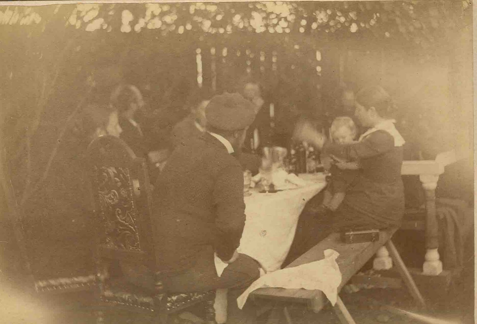 Photo Hip hip hurra